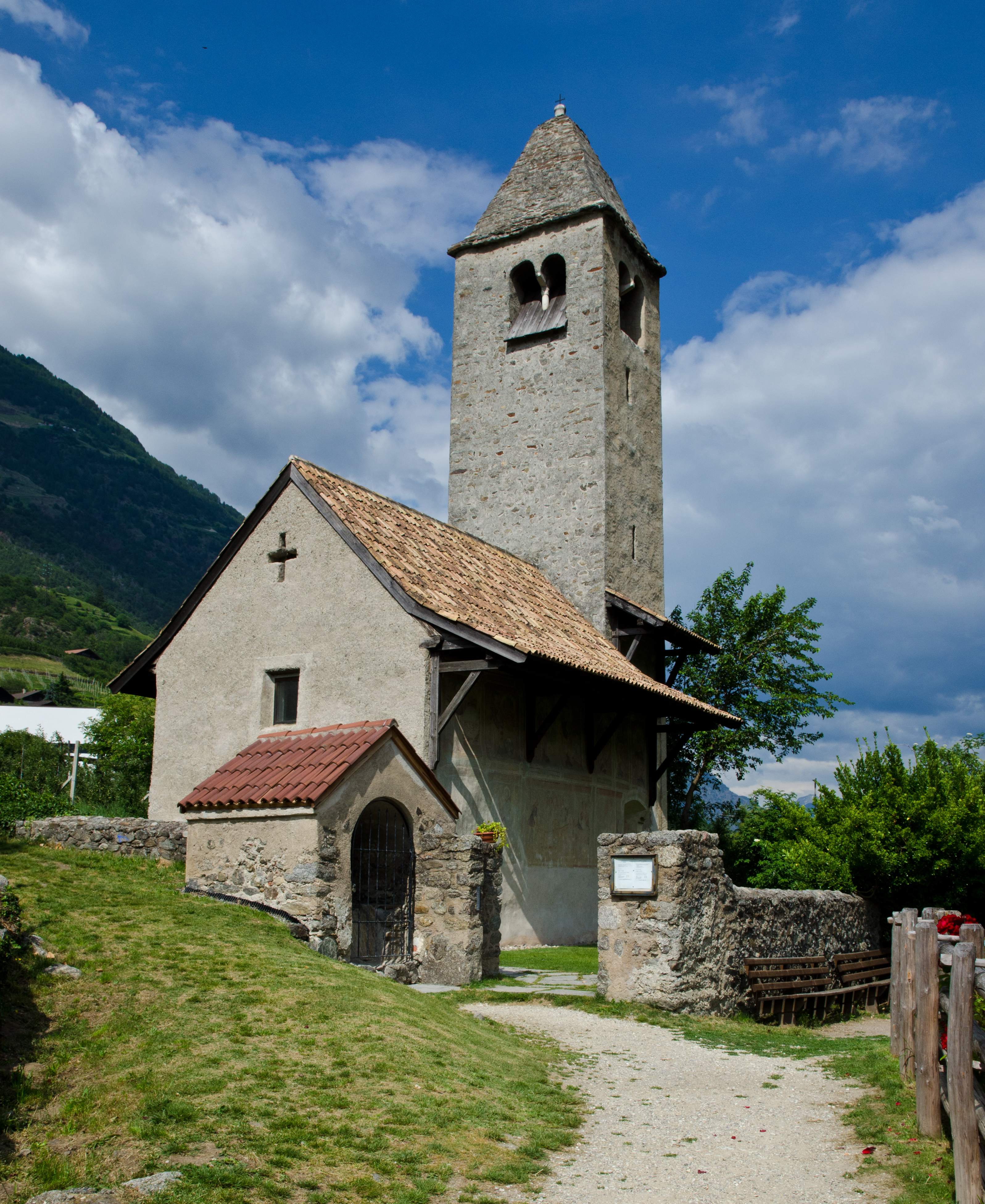 Church St. Proculus, first half of the 7th century, Naturno, South Tyrol, Italy